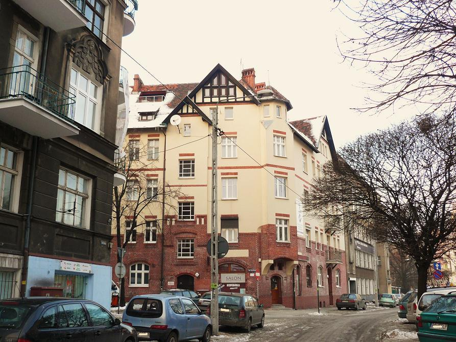 Poznan, Rozana Street, Spar- und Bauverein House.